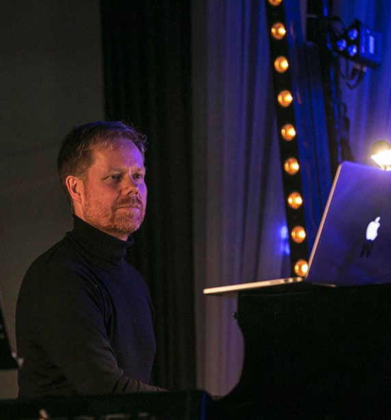 Max Richter performing live at All Tomorrow's Parties Fest in 2015